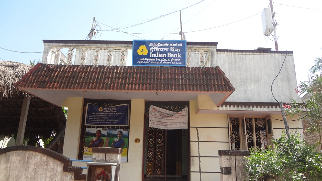 Indian Bank, Chettipet, Mannadipet Commune, Pondicherry, India